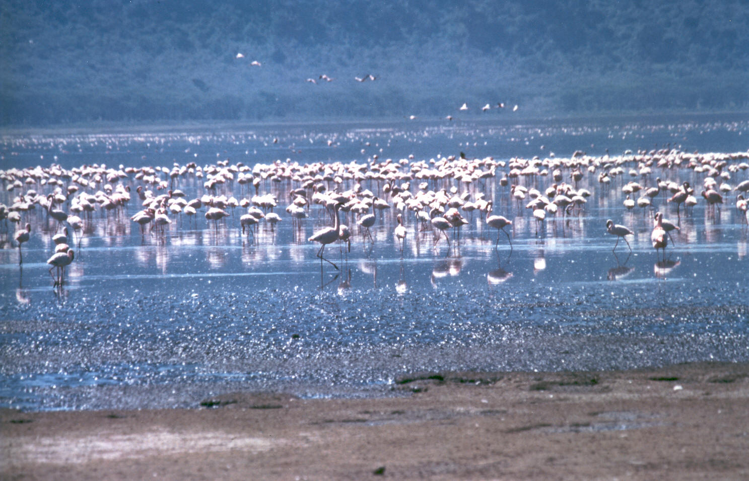 Greater and Lesser Flamingos in Lake Nakuru National Park